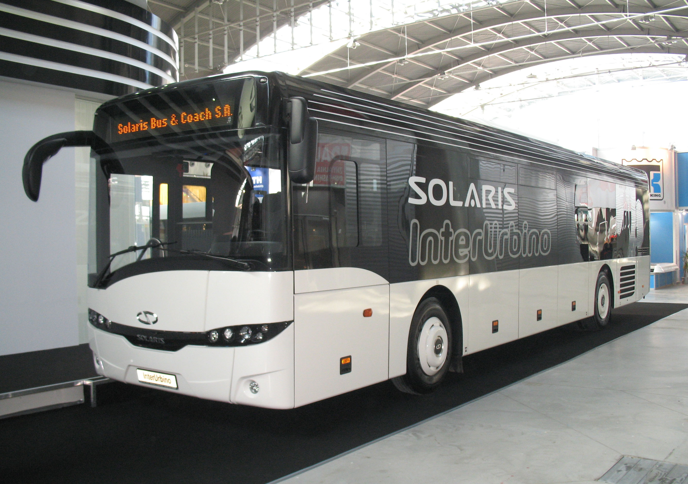 Solaris InterUrbino 12 bus in Kielce, Poland. Built 2010. Transexpo 2010.